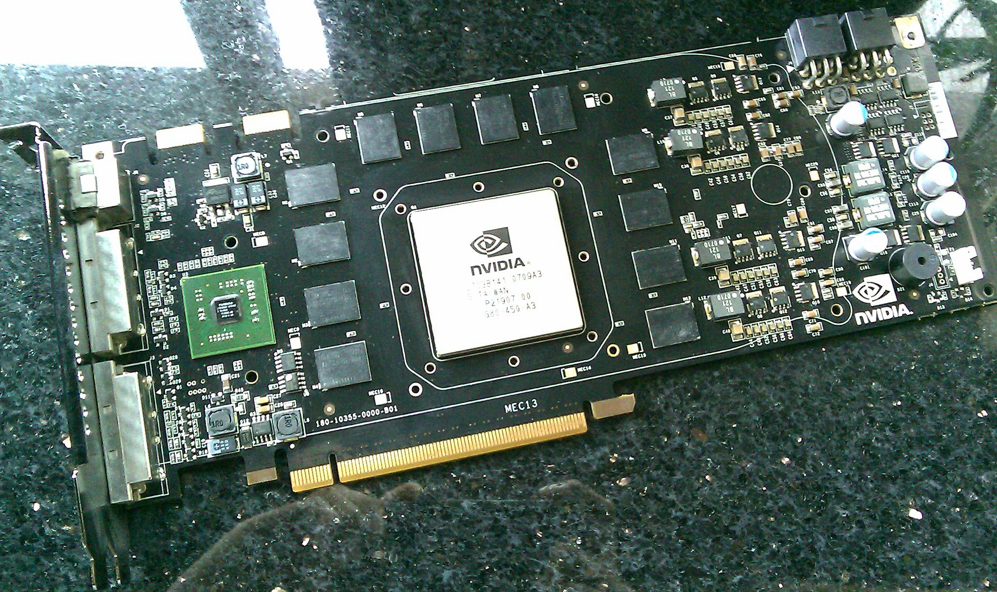 NVIDIA GeForce 8800 Ultra Board